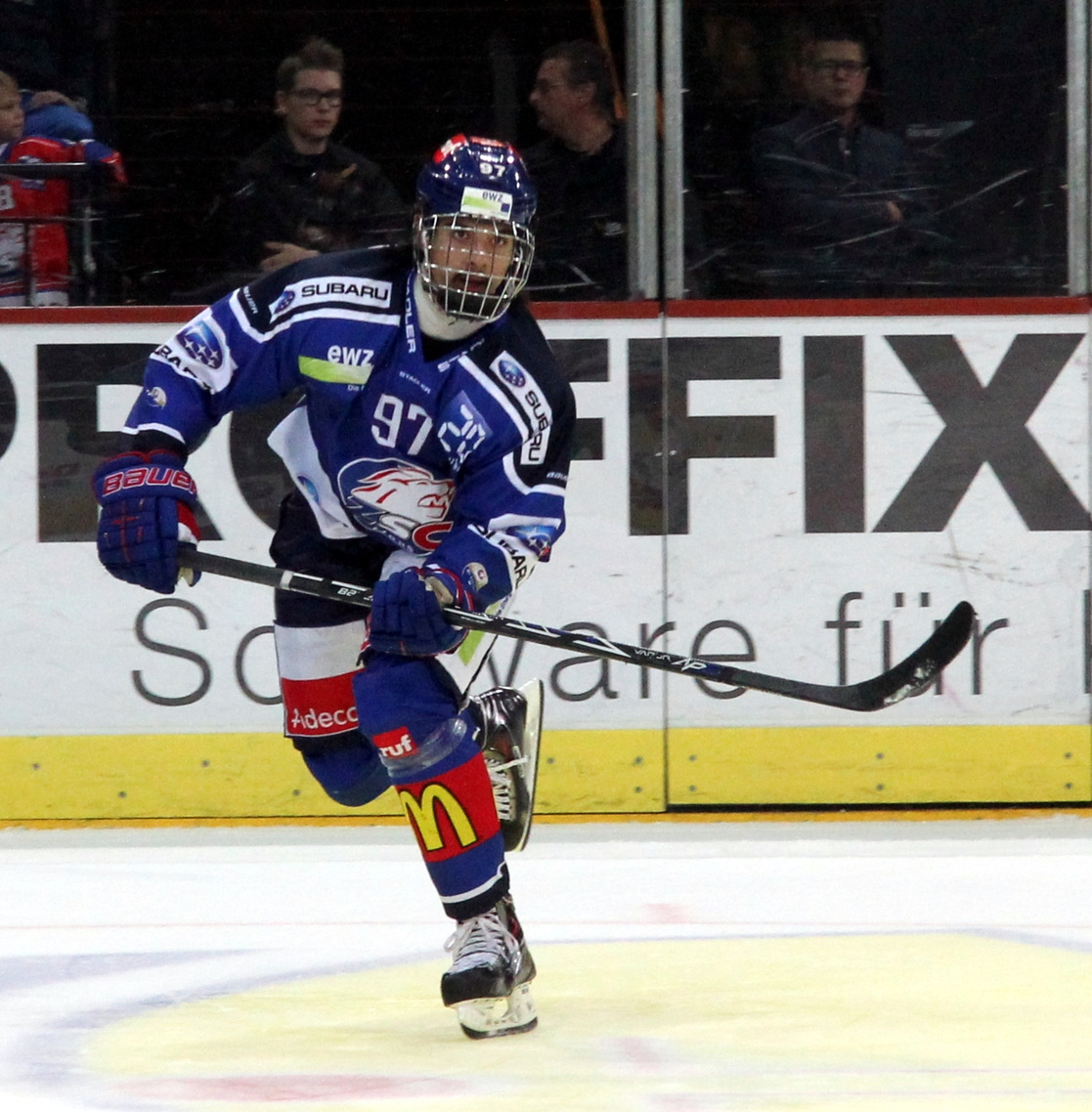 Jonas Siegenthaler (ZSC Lions #97)